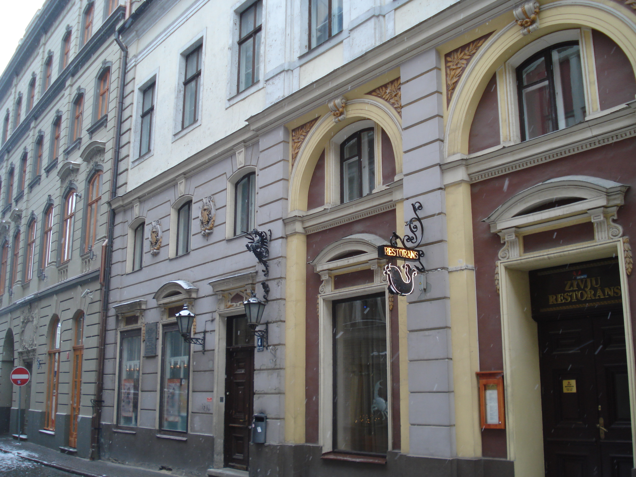 Wagner Hall in Riga. Riharda Vāgnera iela 4